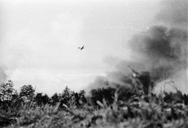 Kampinos Regiment during Warsaw Uprising: German Ju-87 Stuka bombing headquarters of Kampinos Regiment in village of Wiersze on September 27, 1944.